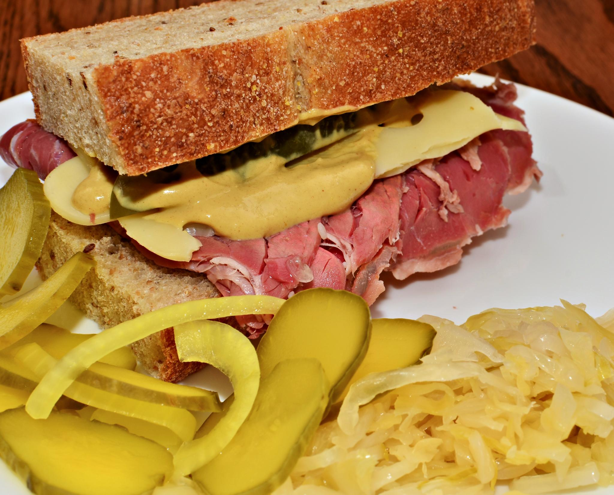 New York deli rye